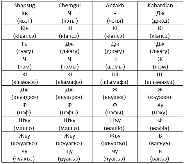 Circassian Dialects Differences English 3